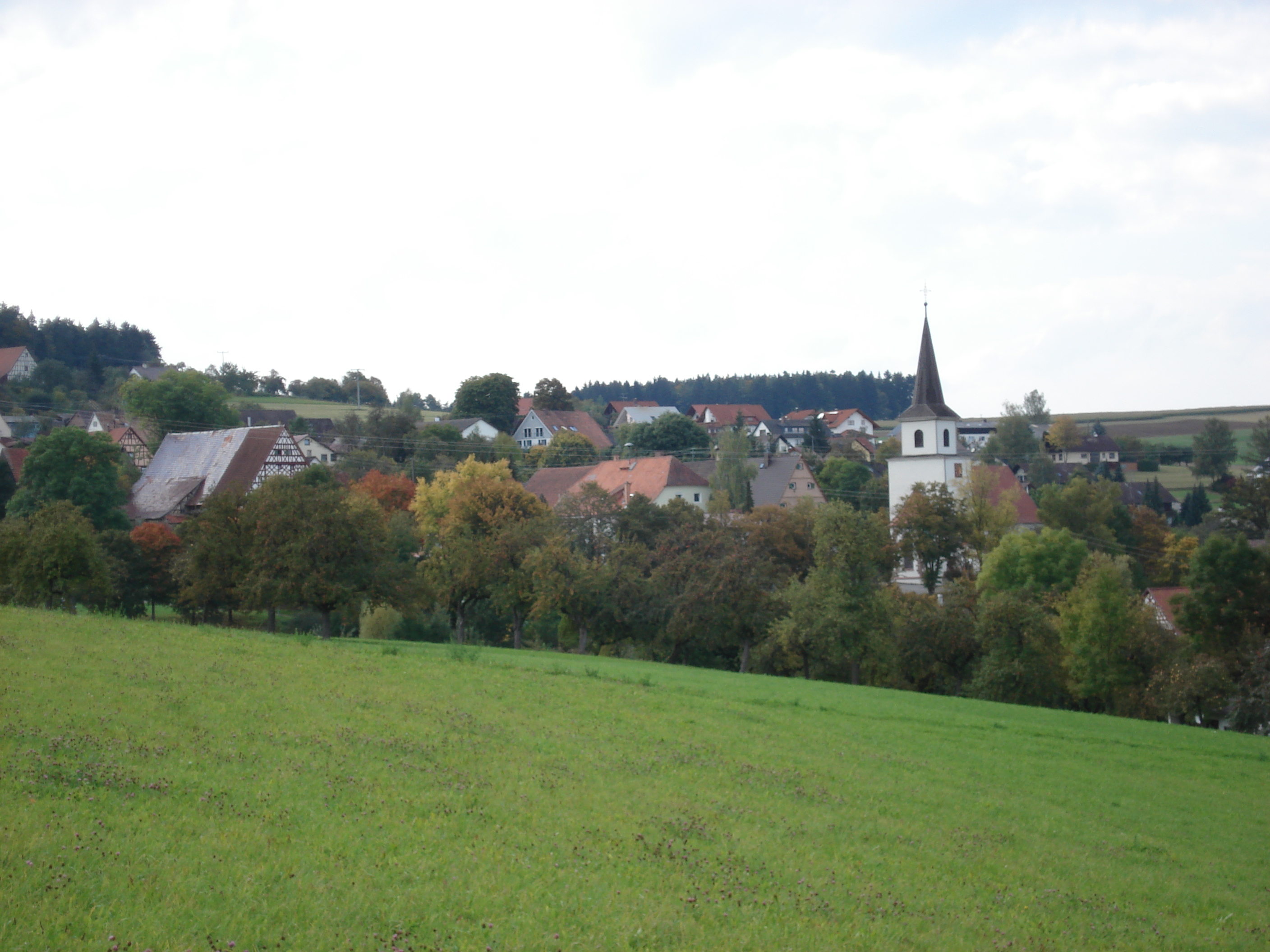 Flözlingen (Zimmern ob Rottweil)